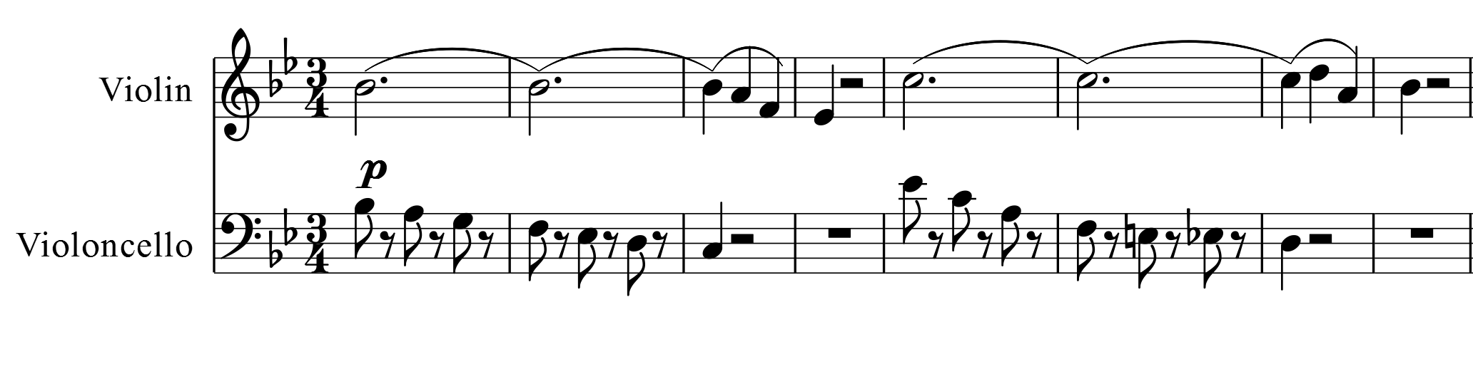 Joseph Haydn, Symphony No. 85, first movement, bar 1-8